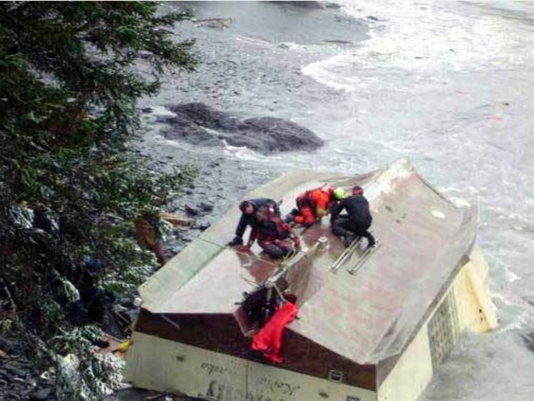 United States Coast Guard personnel and civilians attempt to rescue the two-man crew of the American fishing vessel Velocity, trapped inside her after she capsized and drifted ashore at Mill Bay Beach near Kodiak, Alaska. They rescued one crewman, but the other crewman died.